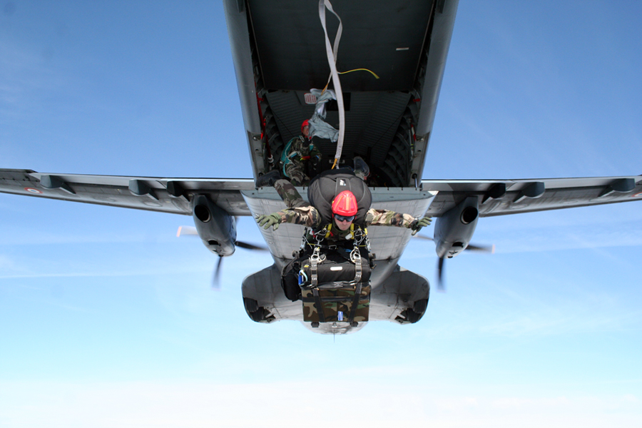 French commando jump.